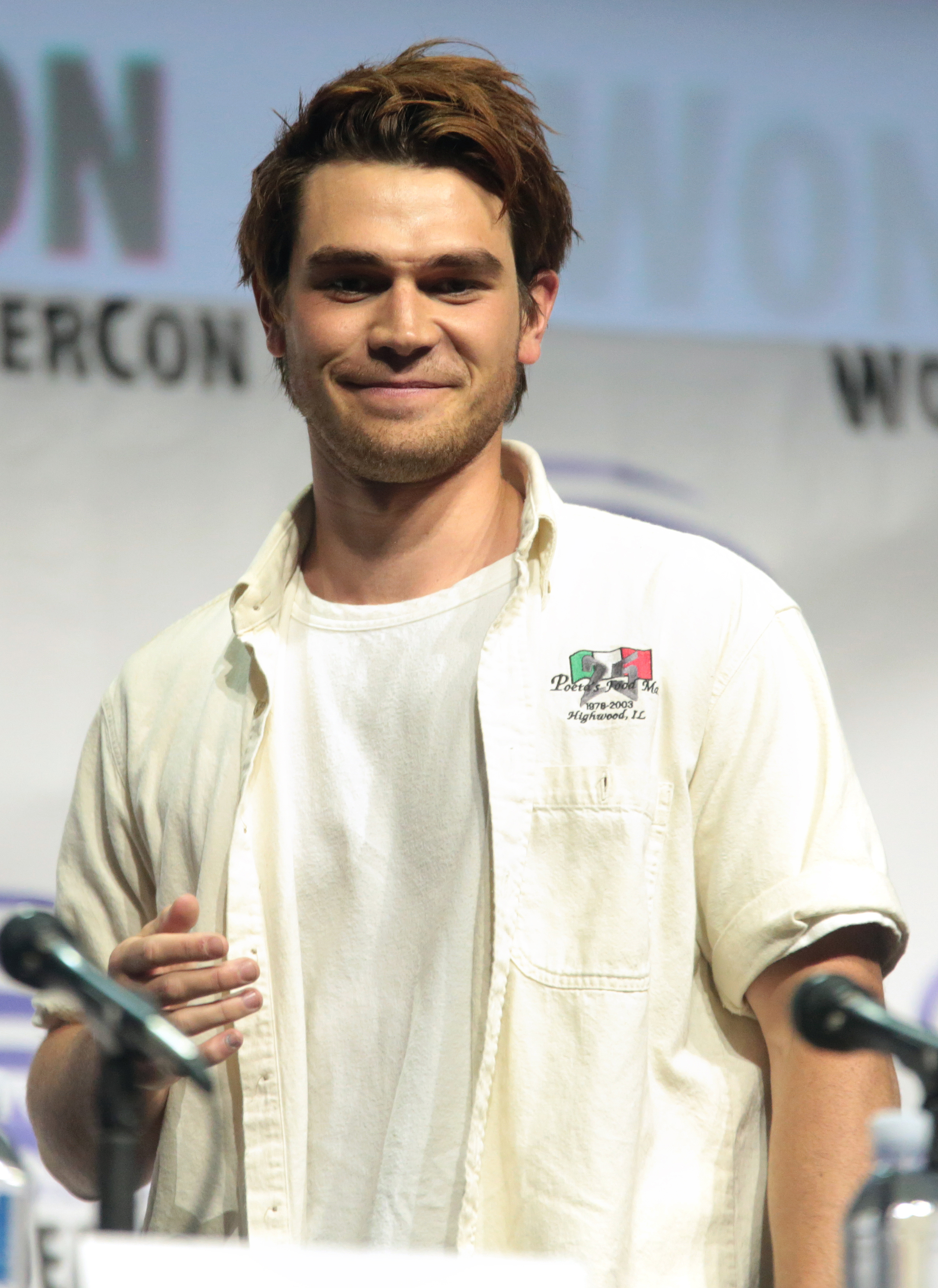 KJ Apa speaking at the 2017 WonderCon in Anaheim, California.